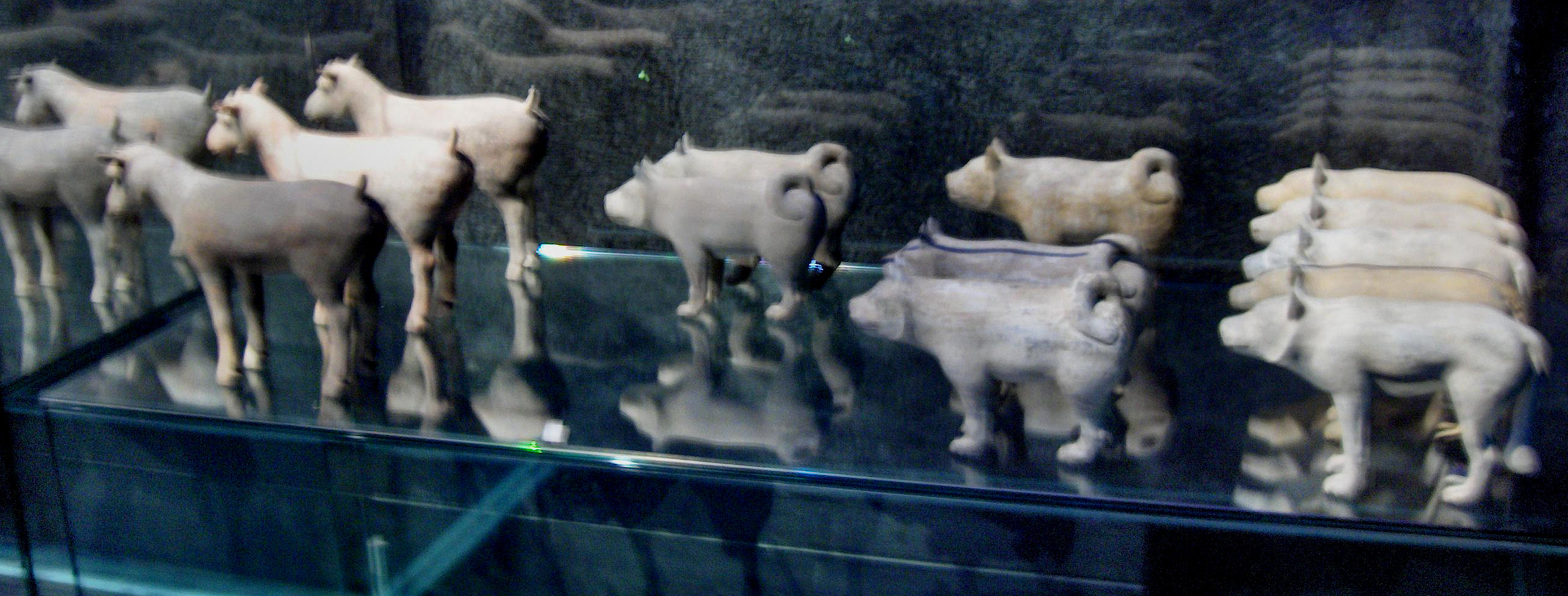 Ceramic pigs and oxen; Xi'an; Western Han Dynasty